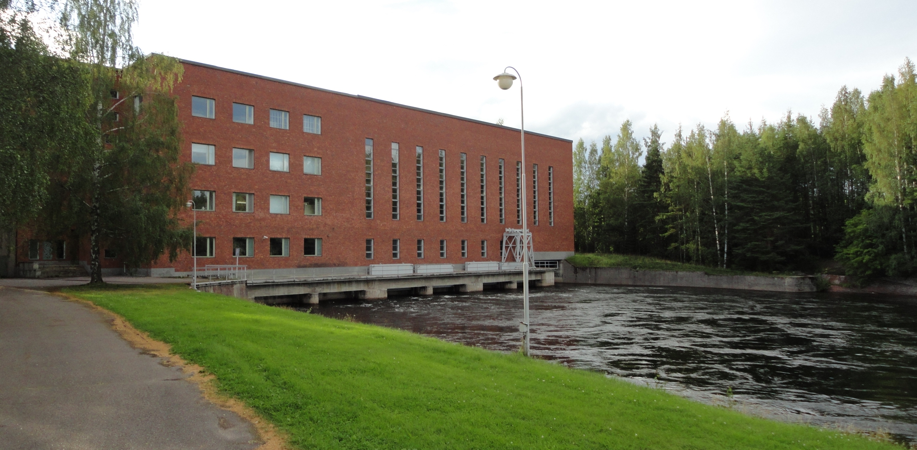 Mankala powerplant, Iitti, Finland